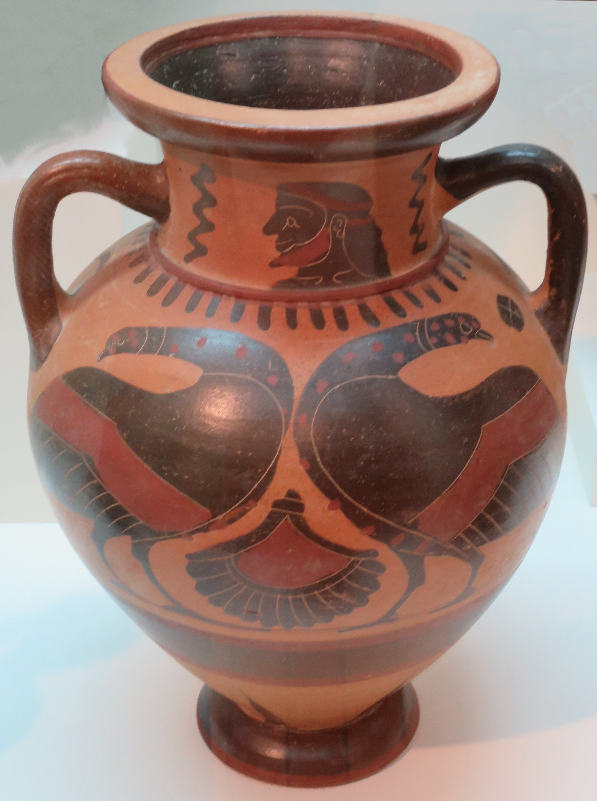 Amphora (vase) by the Painter of Louvre, Greece, c. 560-550 BCE, pottery and paint, Lowe Art Museum